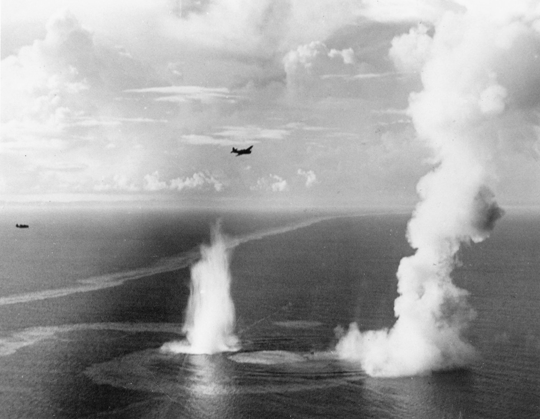 U.S. Navy Grumman TBF-1 Avenger aircraft of Torpedo Squadron VT-5 from the aircraft carrier USS Yorktown (CV-10) fly over the site where squadron aircraft scored four direct hits on the Japanese destroyer Wakatake, sinking her in fifteen seconds 110 km north of Palau.